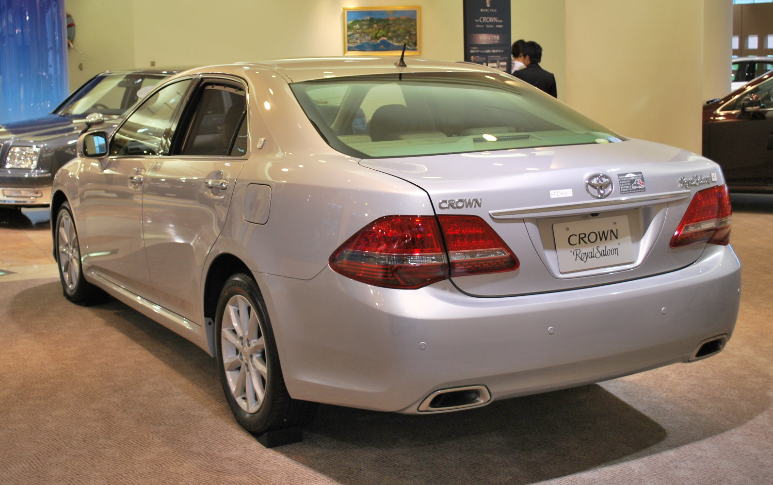 Toyota_Crown_S200